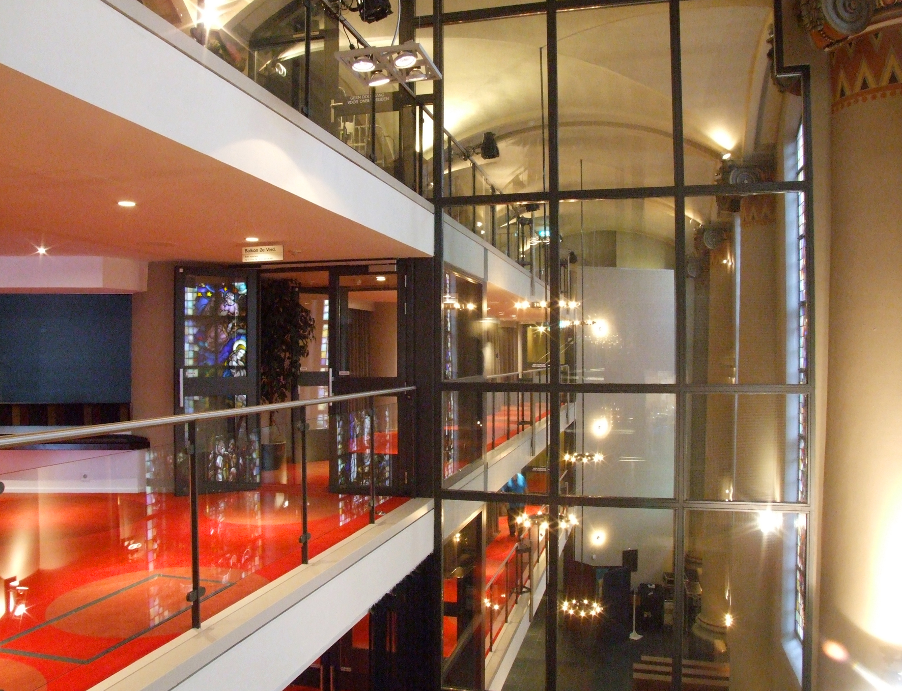 Interior Theater 'Heilige Maagdkerk', Bergen op Zoom (The Netherlands)